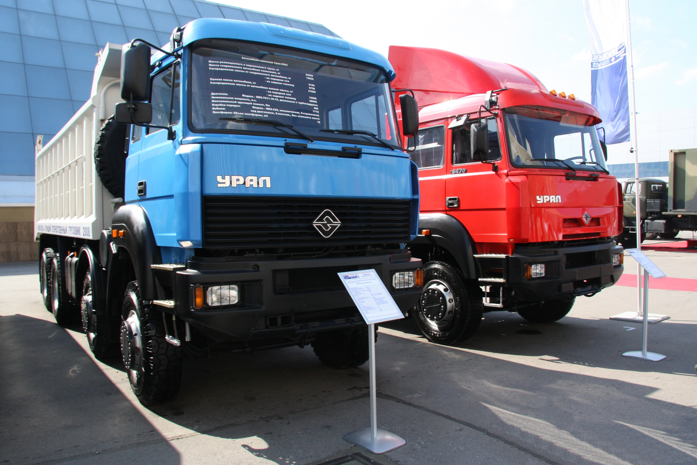 Ural-6563-based dump trucks at the IDELF-2008 exhibition.